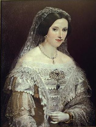 Maria Adelaide of Austria, queen of Sardinia